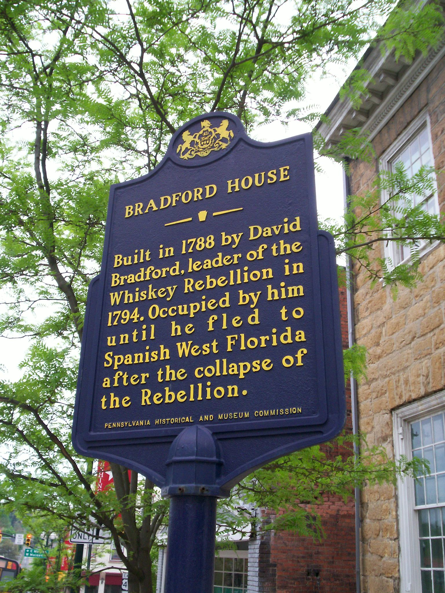 Pennsylvania Historical Marker for the David Bradford House in Washington, Pennsylvania. The home is open to the public today.